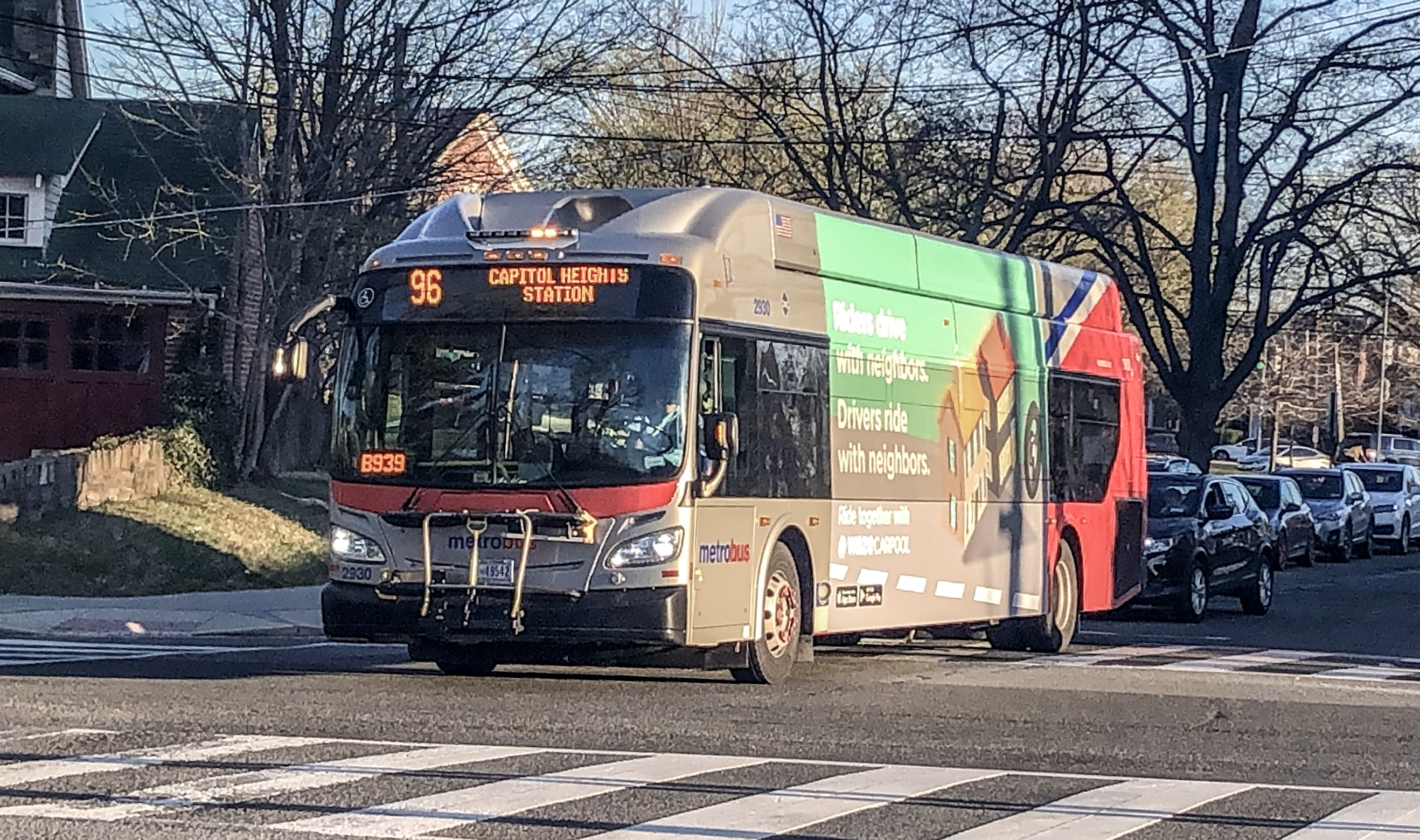 A New Flyer XN40 operating on Route 96 at Tenleytown station.